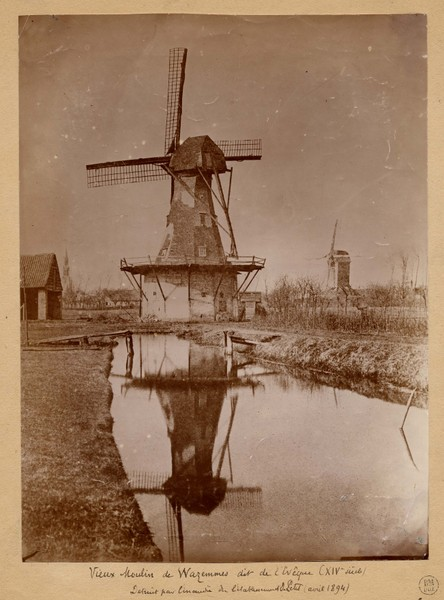 Lille : Vieux moulin de Wazemmes dit de l’Evêque (XIVème siècle), détruit par l’incendie de l’établissement de Petit (avril 1894)date : fin XIX siècle [1850/1899]dimensions : 20,3 x 27,2 cm.